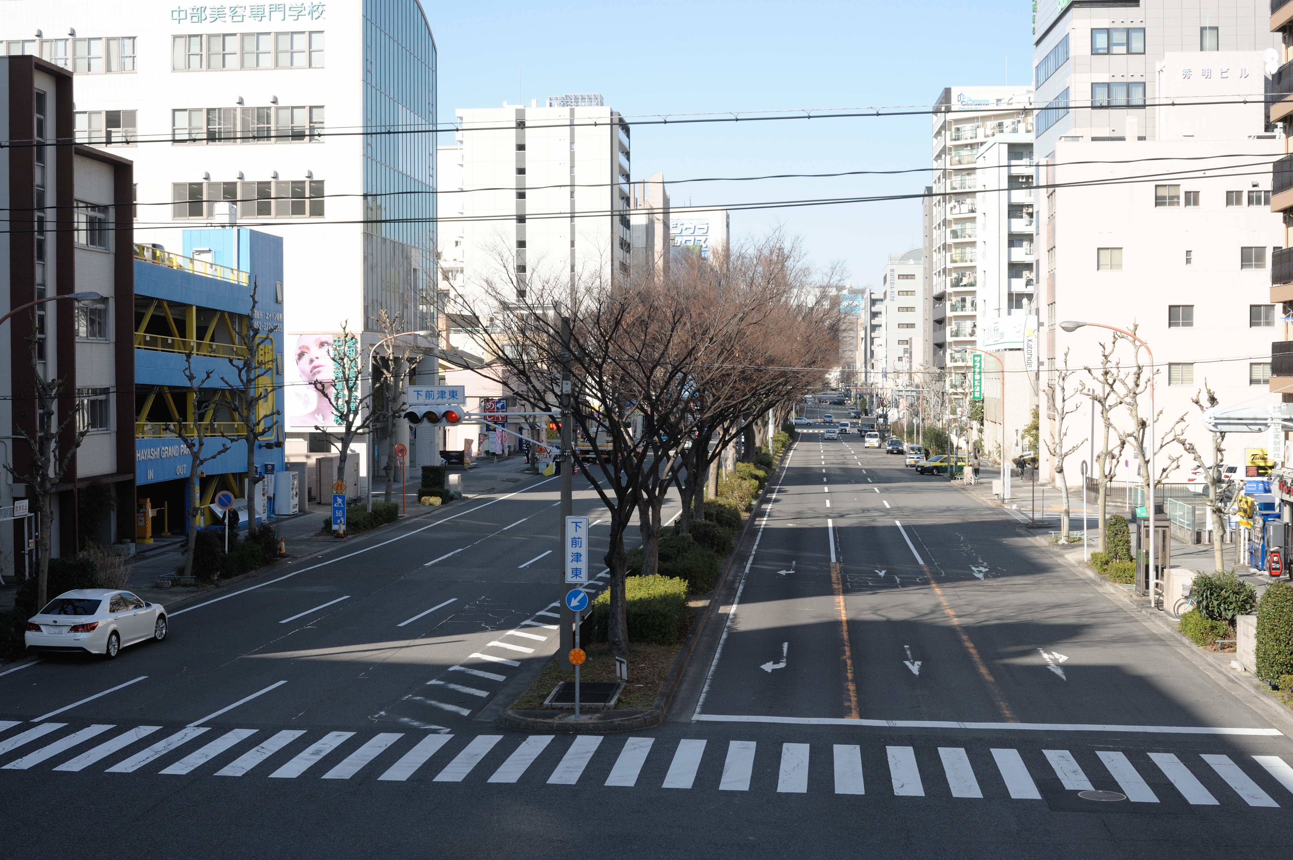 Maezu Dori (Maezu St.), Nagoya, Aichi